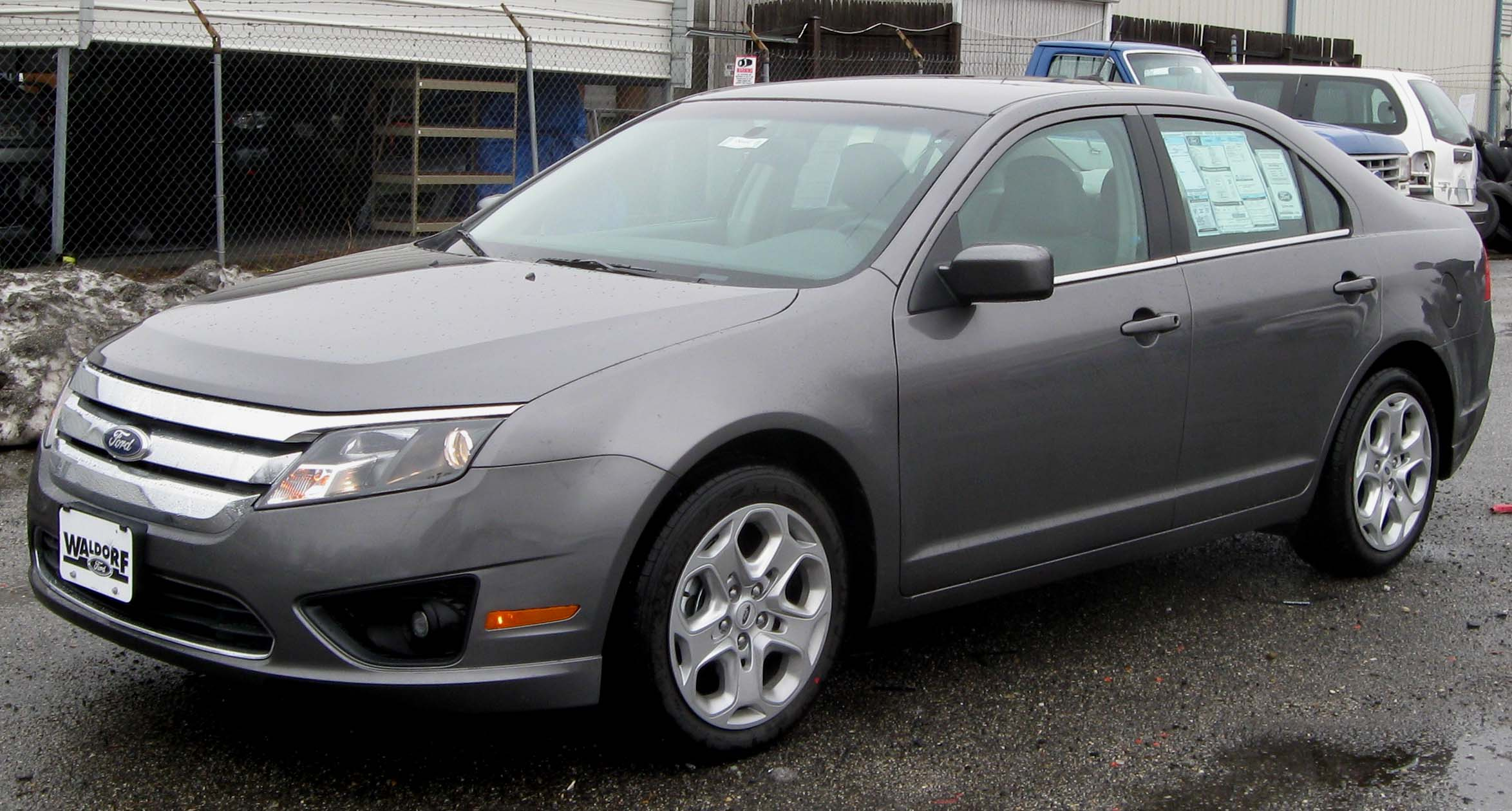 2010 Ford Fusion SE photographed in Waldorf, Maryland, USA.